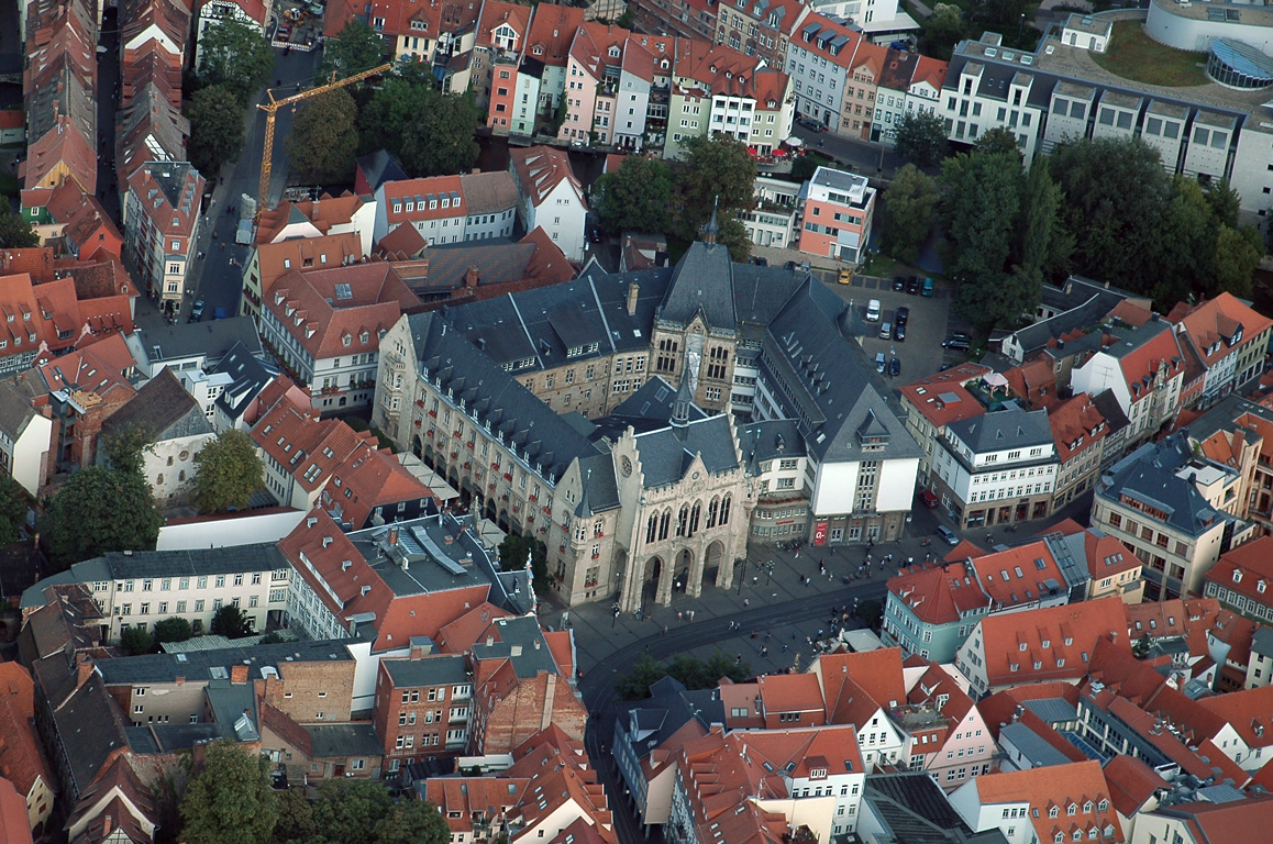 Aerial photo of Erfurt Town Hall (built between 1870 and 1874) at the Fischmarkt square in Erfurt, Thuringia, Germany